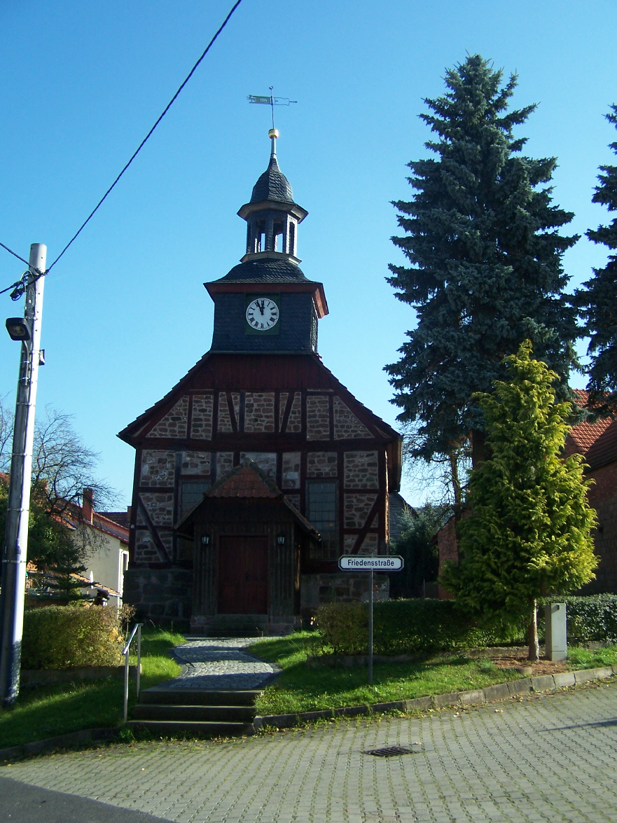 The church in Gospenroda village.